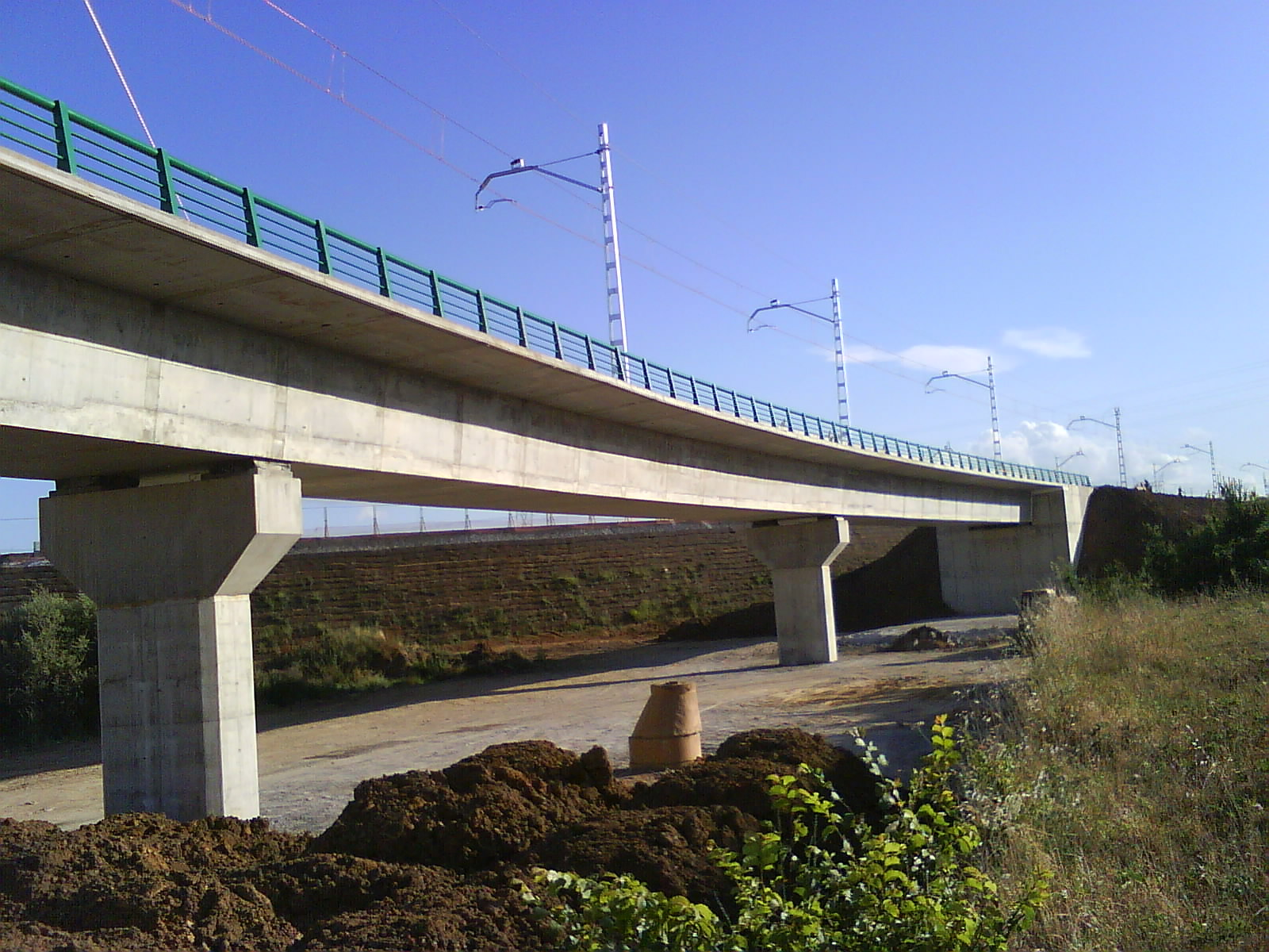 Viaduct over the N-630, south rail link León.